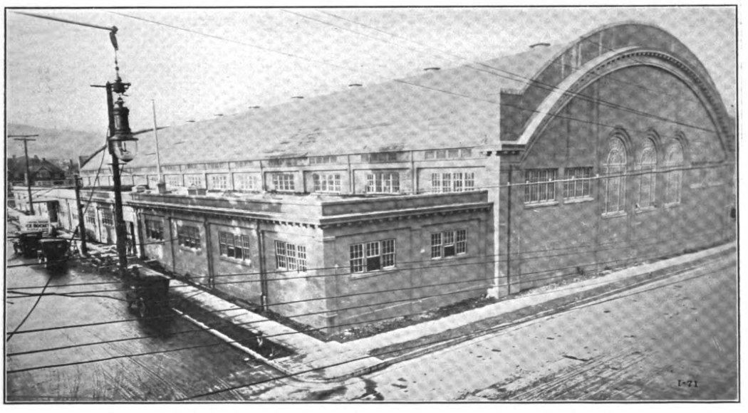 Exterior of the Portland Ice Arena in Portland, Oregon in 1915.